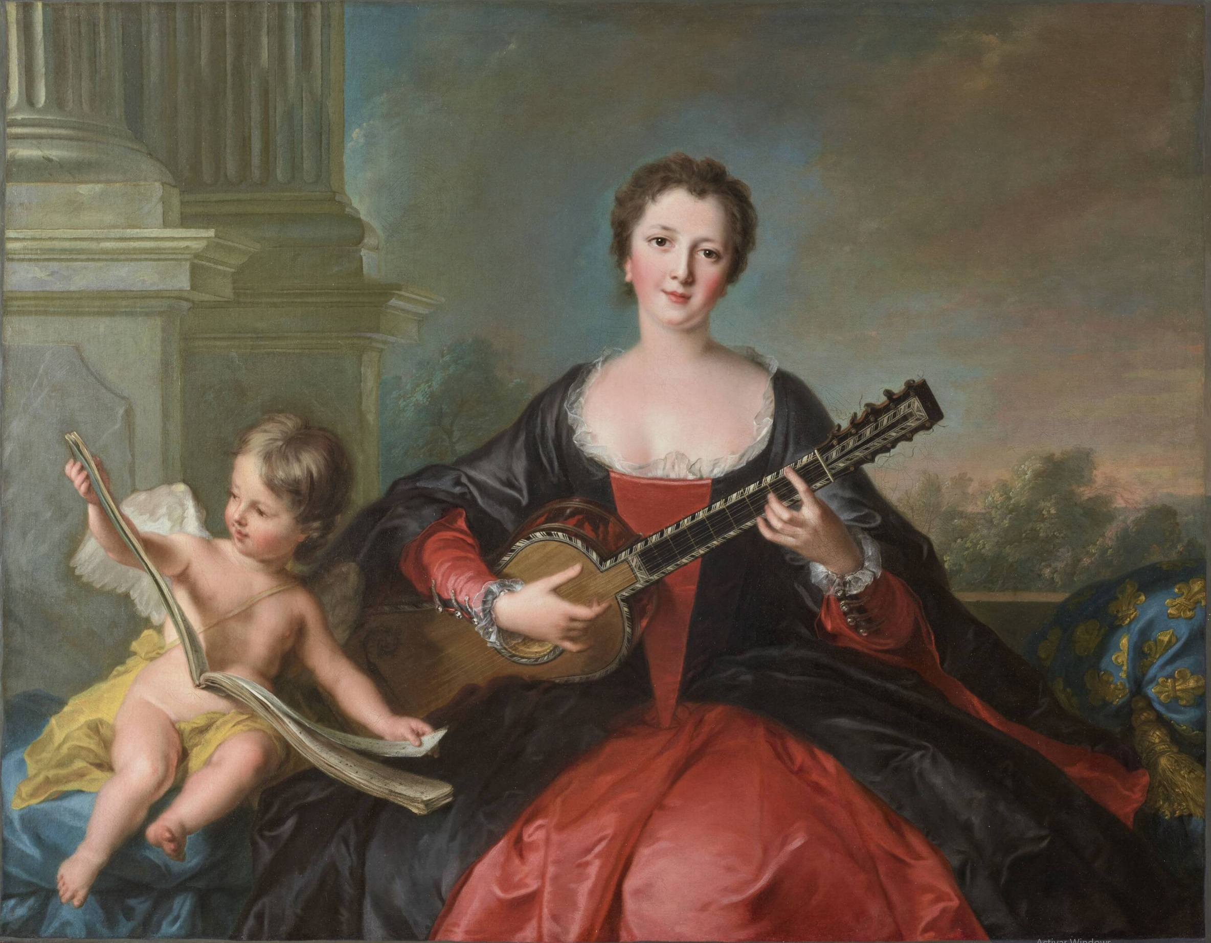 Repro painting of Philippine Élisabeth d'Orléans or her first cousin Louise Anne de Bourbon - daughter of Louis de Bourbon, Prince of Condé and Louise Françoise de Bourbon